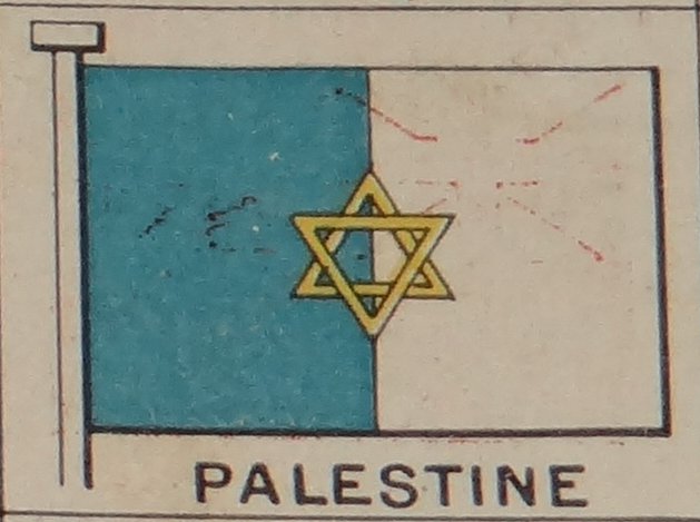 The Palestine flag as presented in the Larousse french dictionary, the edition of 1934.